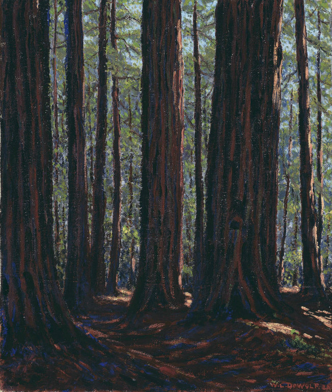 Among the Redwoods (1920), an oil painting by Wallace Leroy DeWolf